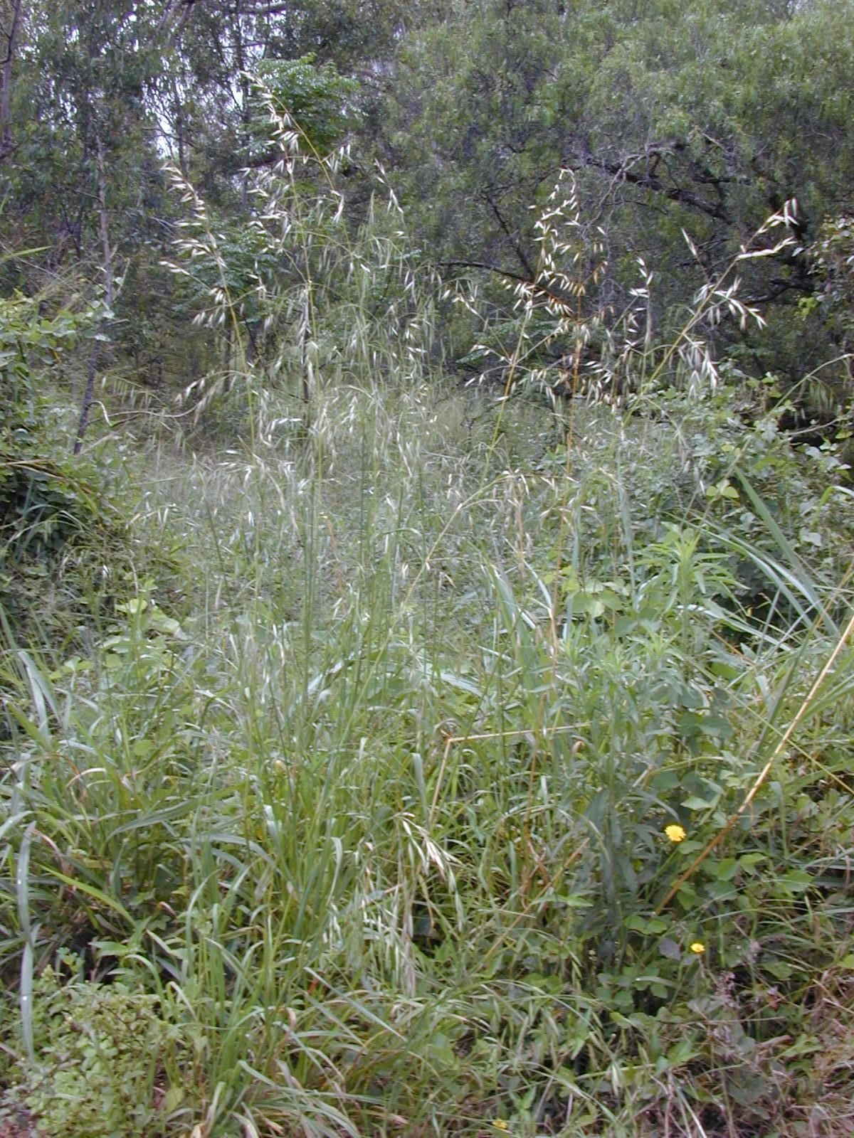 Bromus diandrus (fruiting habit). Location: Maui, Kula